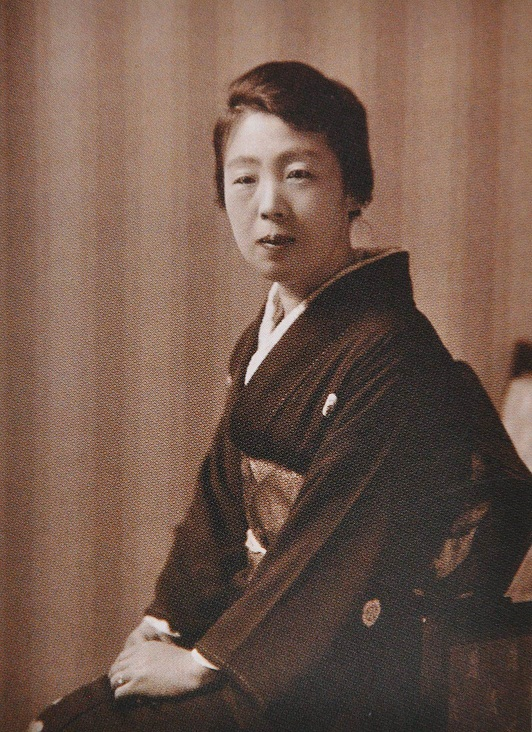 Japanese style painter Itō Shōha (1877-1968)